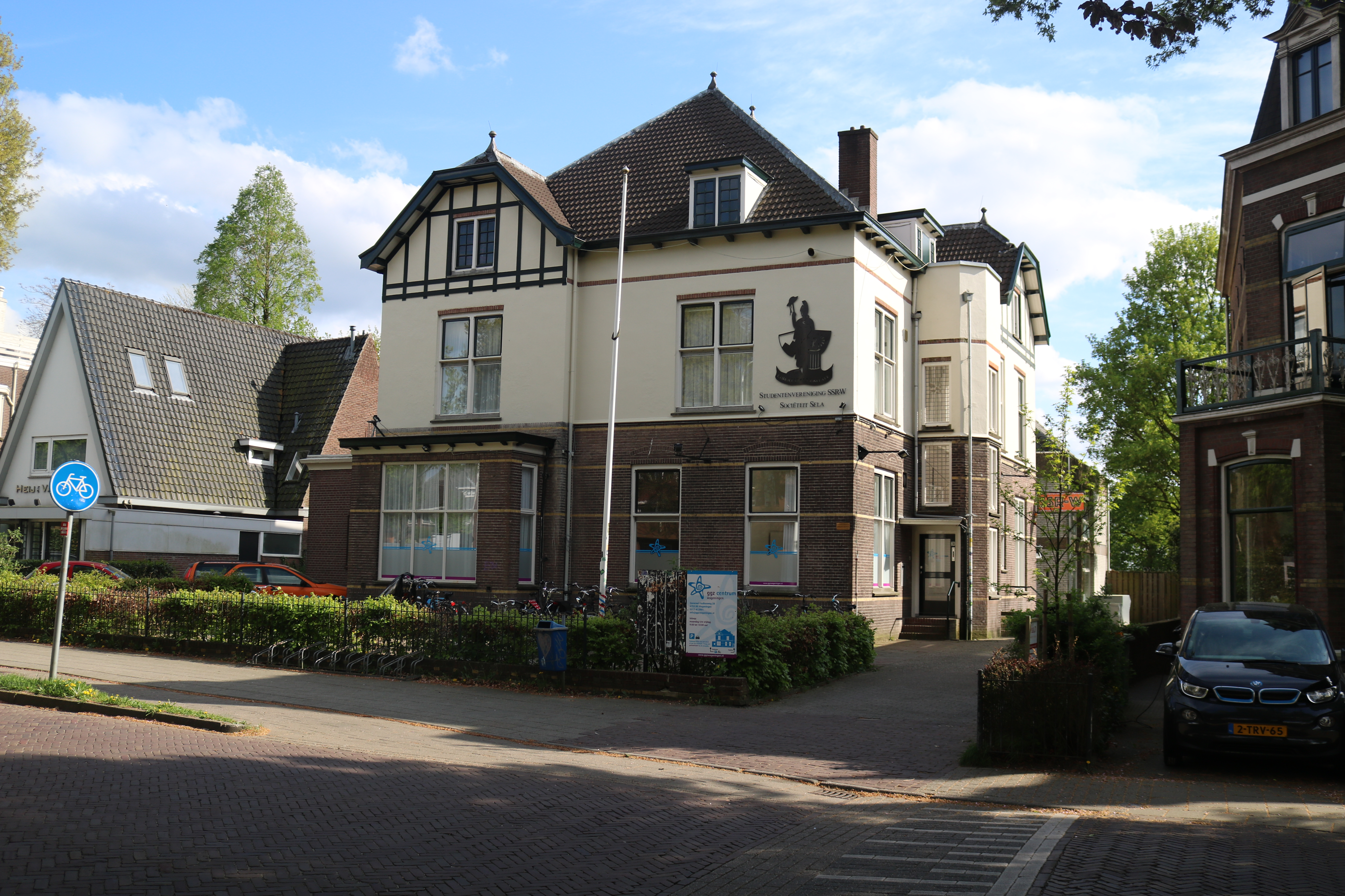 Studentensociëteit Sela die in gebruik is van SSR-W, Generaal Foulkesweg 30 Wageningen